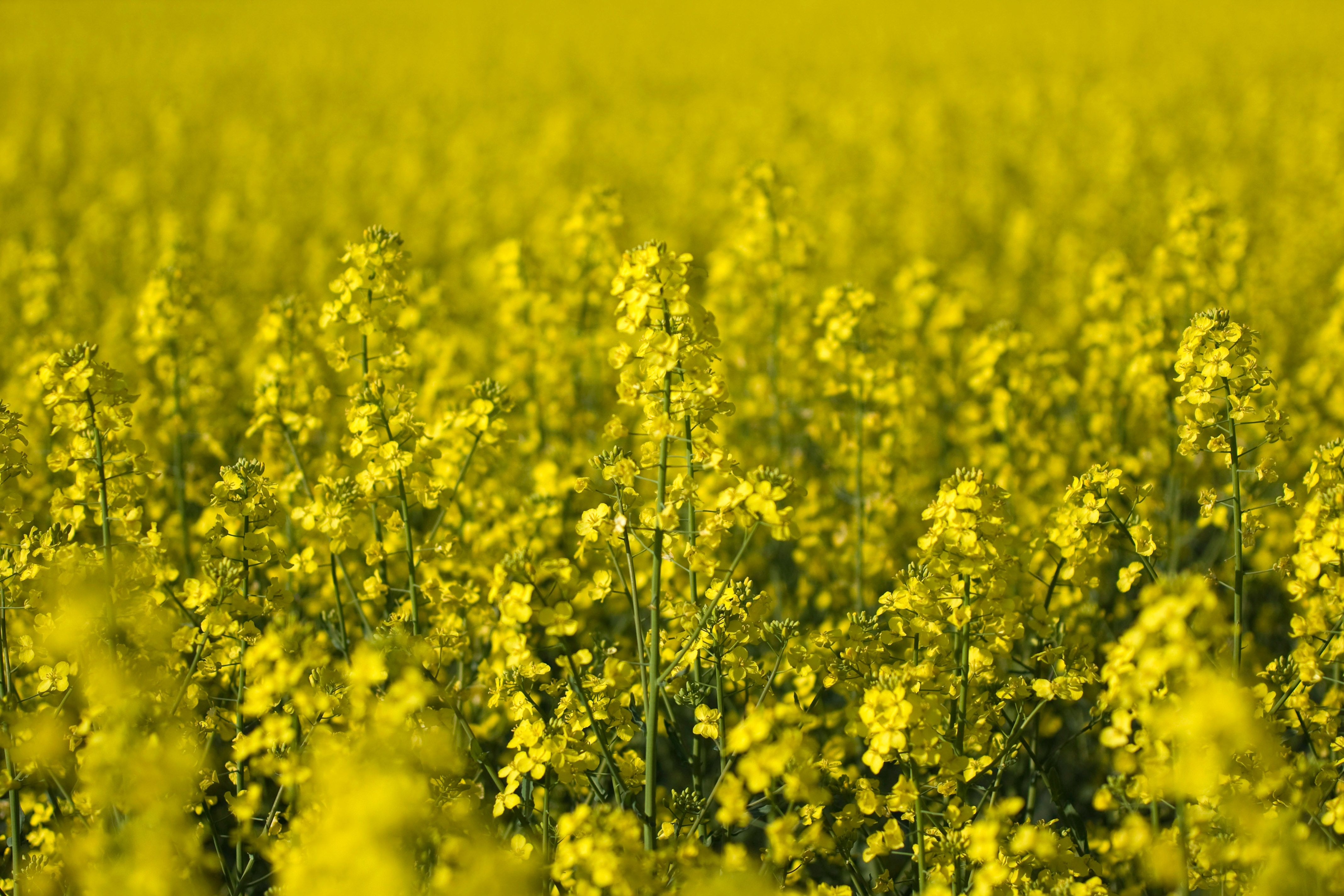 Rapeseed (Brassica napus)